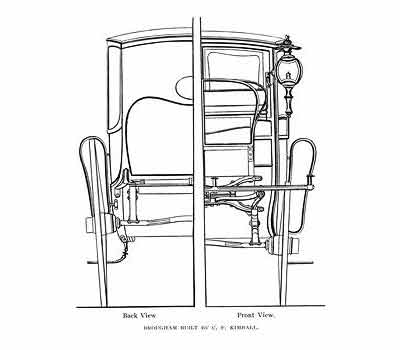 Technical drawing for a brougham carriage, C P Kimball & Co.